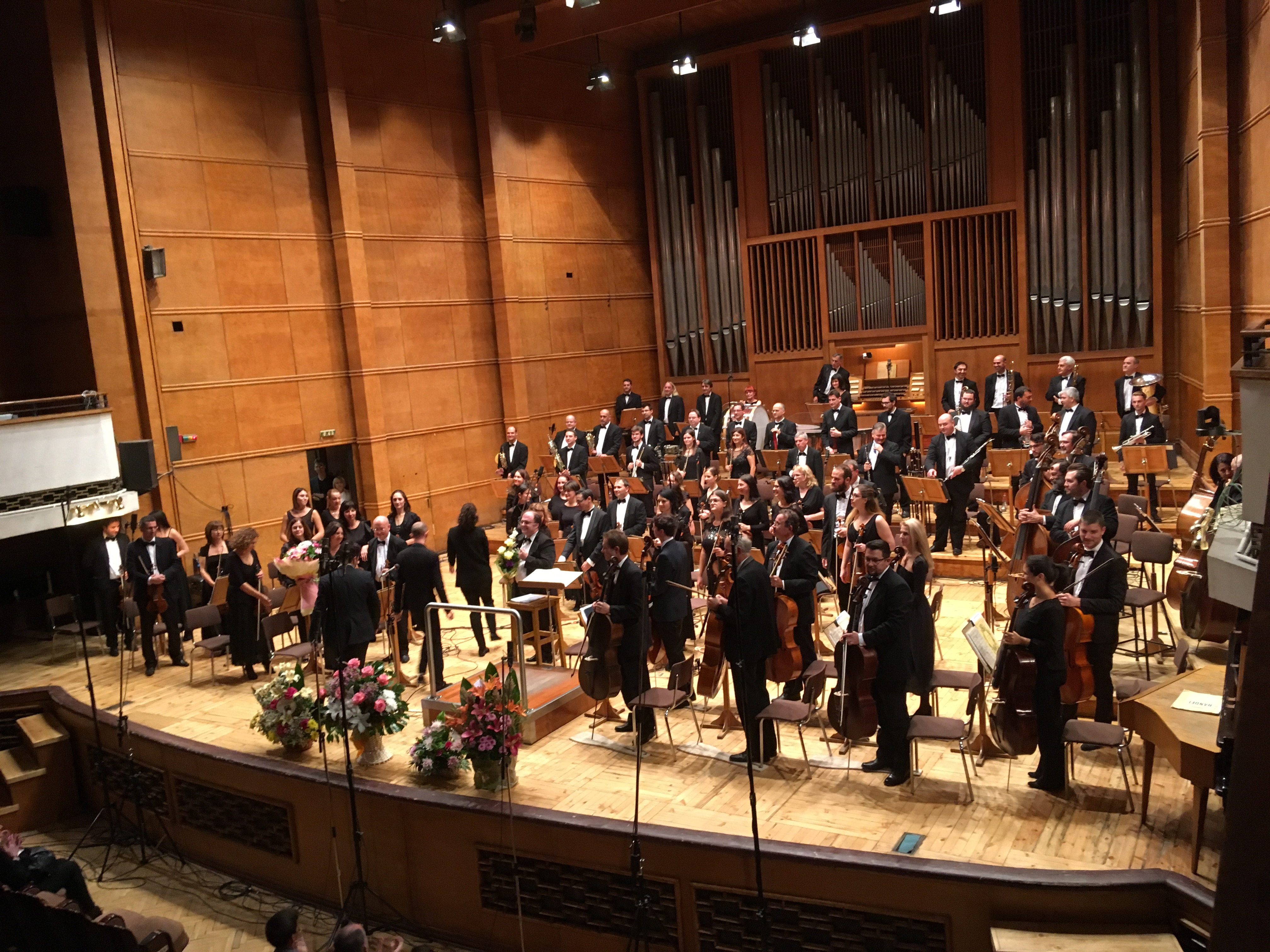 Bulgaria hall, Sofia, 80th anniversary concert 9 October 2017